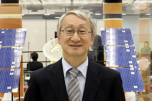 Jun'ichirō Kawaguchi, Professor of the Department of Space Flight Systems, Institute of Space and Astronautical Science, gave a lecture at the Miyakomesse in Kyōto City, Kyōto Prefecture on November 23, 2016.